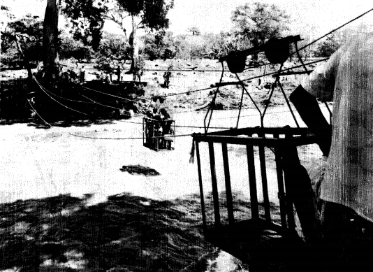 People being transported in basket across river at Achiguate where bridge washed out